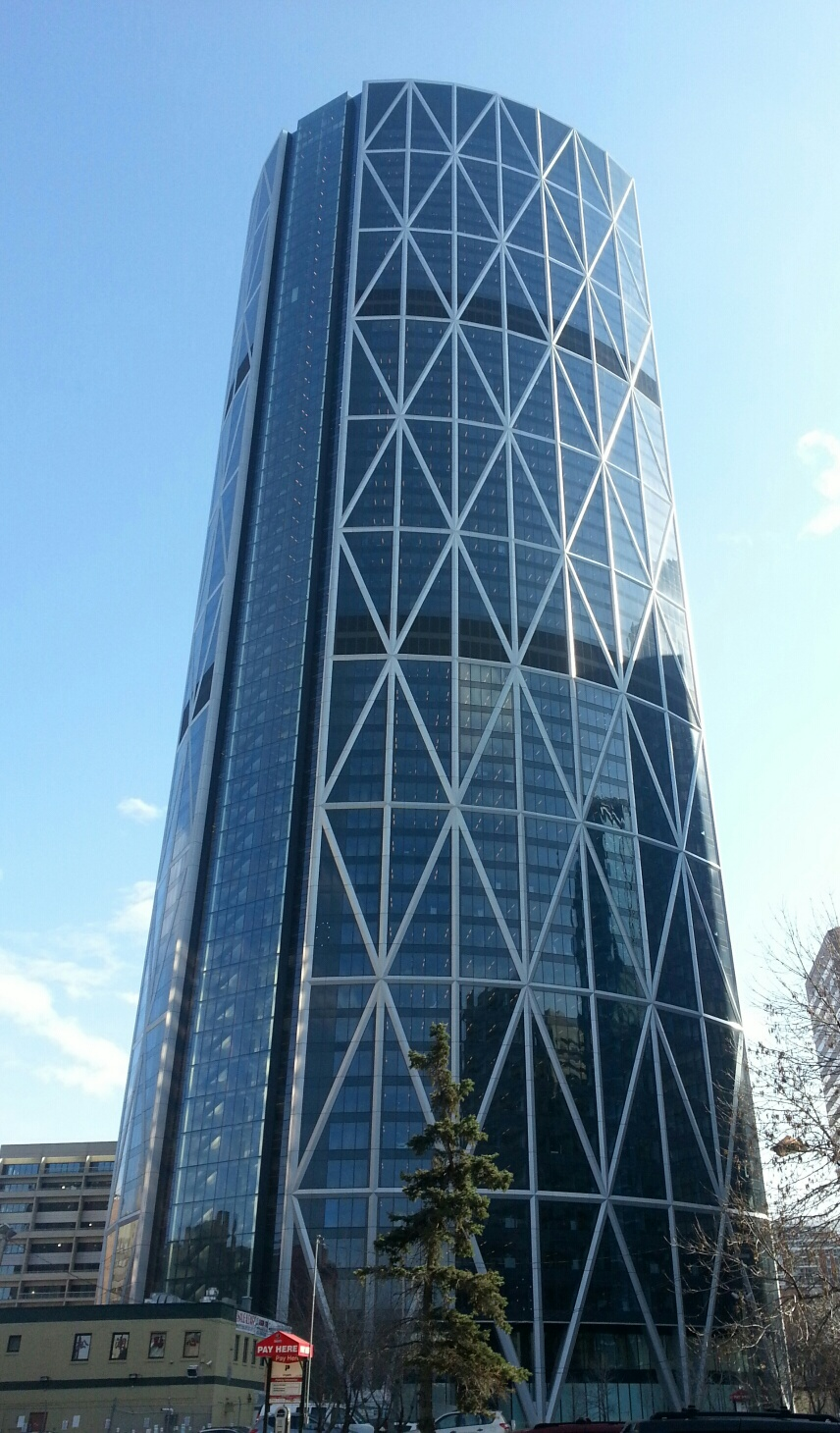 The Bow from the North, Calgary, photographed June 2013